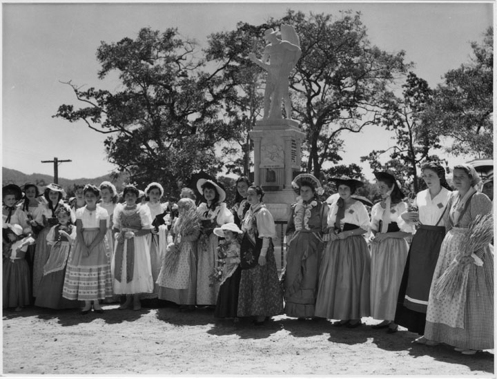 Women in costume in front of the sugar pioneers memorial, Innisfail.